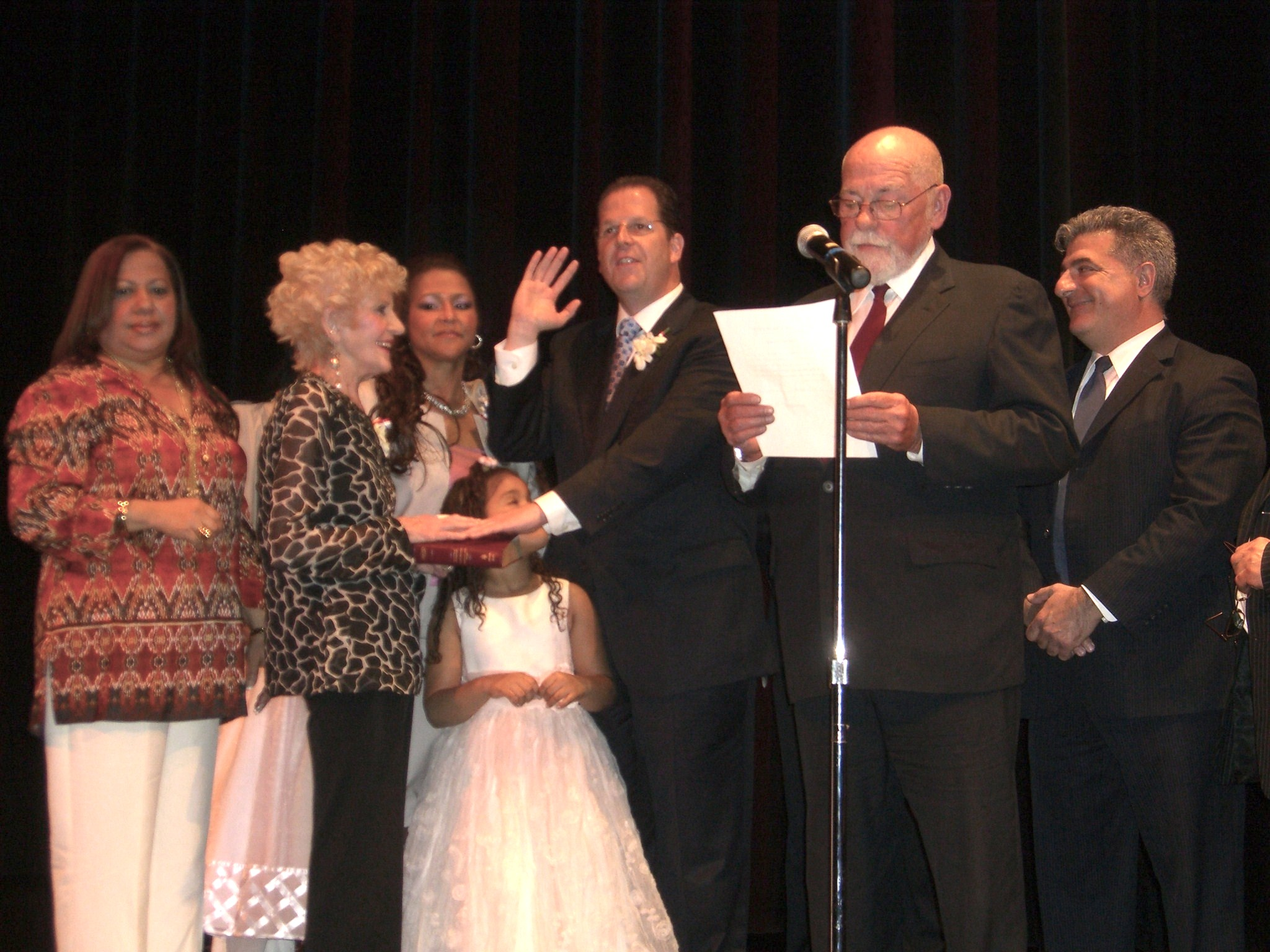 Union City, New Jersey Mayor Brian P. Stack being sworn in at Union City High School on May 18, 2010, following his re-election on May 11. Holding the Bible is his mother, Magaret. Photo by Luigi Novi. This photo may be used and modified, for any purpose, only if the photographer is visibly credited in each instance in which it is used. (See licensing information below.) For more information on my photos, you can contact me here.